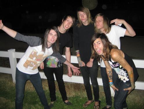 Confide, the LA based metalcore band